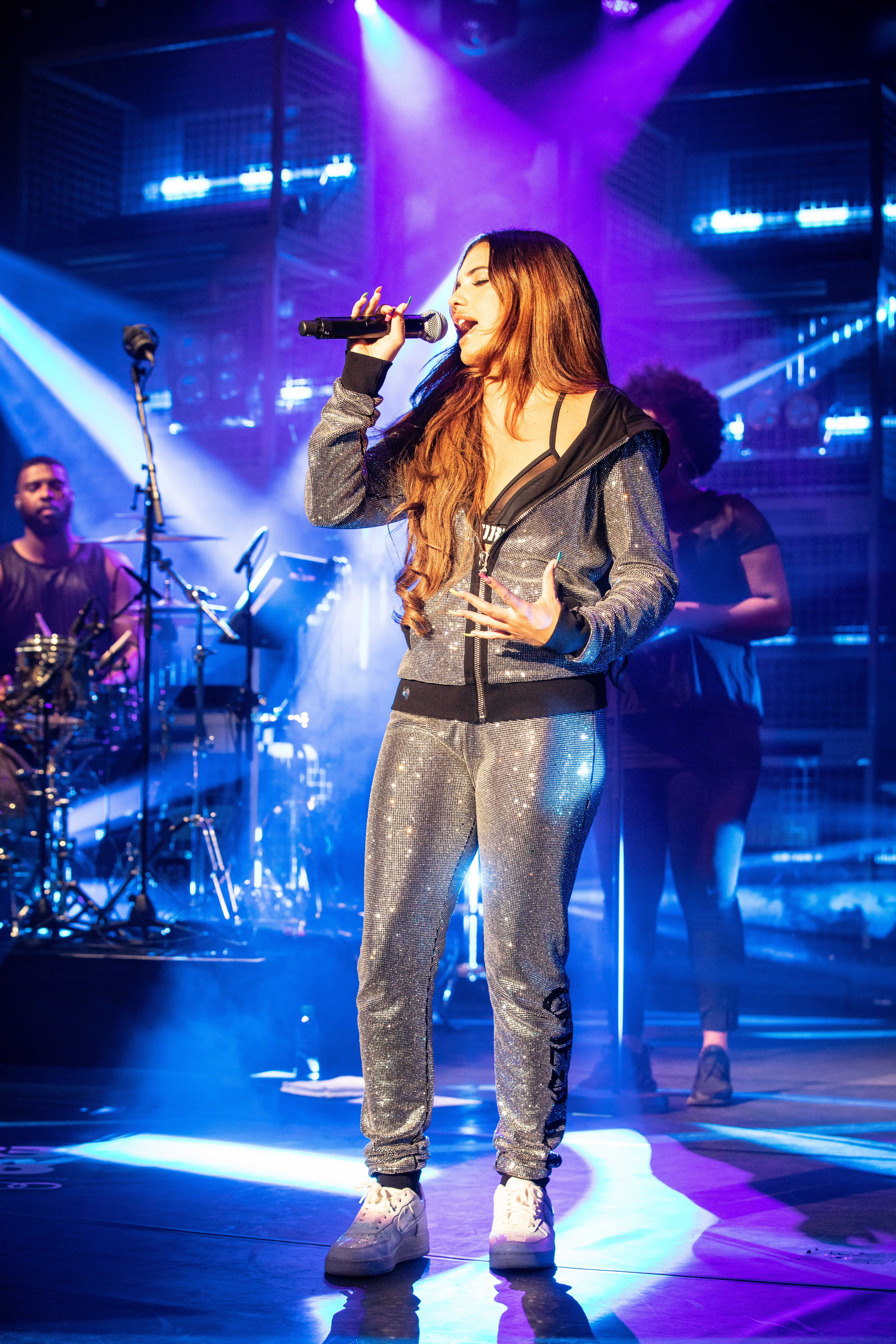 British-Swedish singer Mabel at the SWR3 New Pop Festival 2018